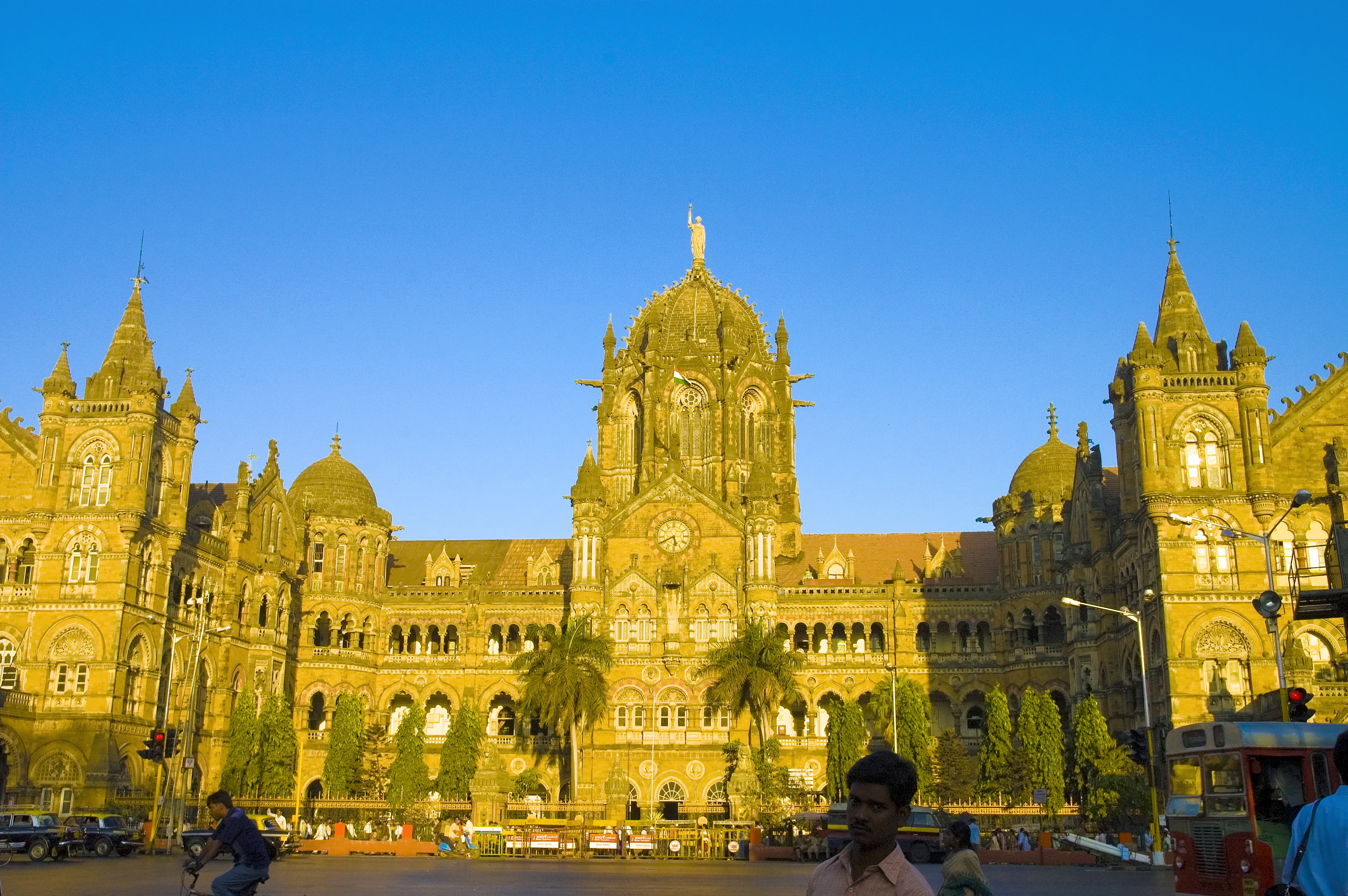 Victoria Terminus Mumbai